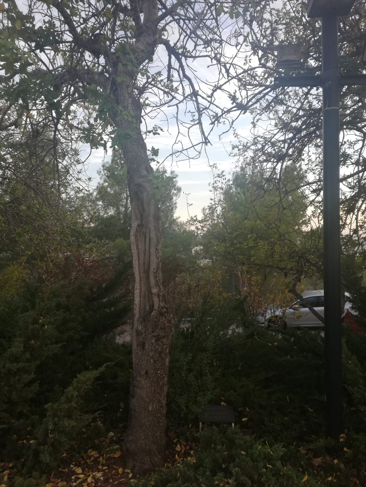 Tree of rightous of Henryk Rolirad.